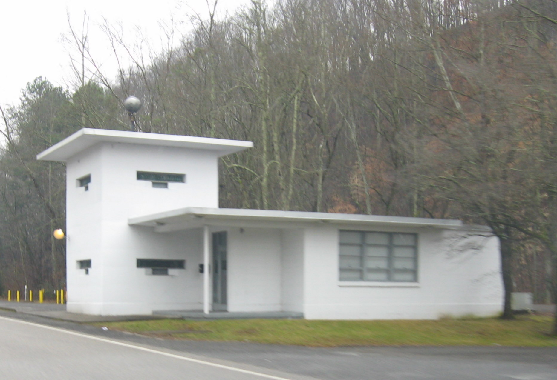 "Checking station" or "gatehouse" in midtown Oak Ridge -- near the Y-12 Plant. Constructed circa 1949 for Y-12 security. Listed on the National Register of Historic Places.